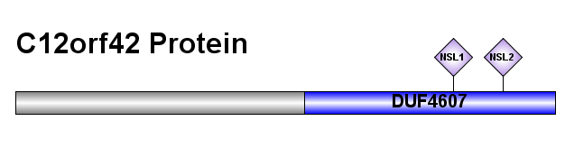 C12orf42 protein cartoon illustrates the location of the domain and two nuclear localization signals found in the protein.